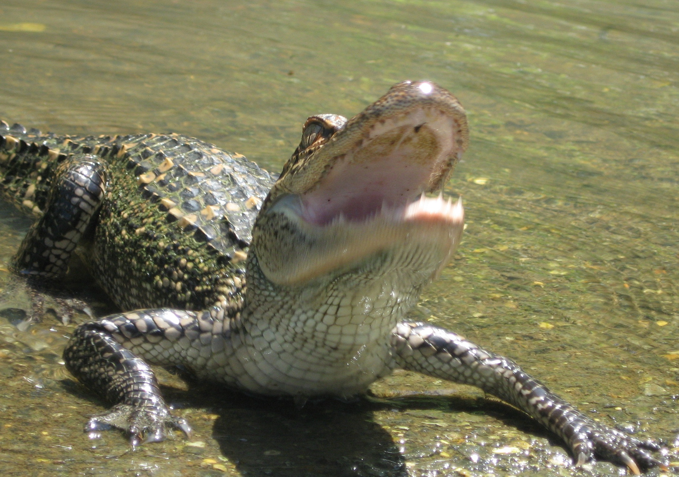 An alligator's mouth.